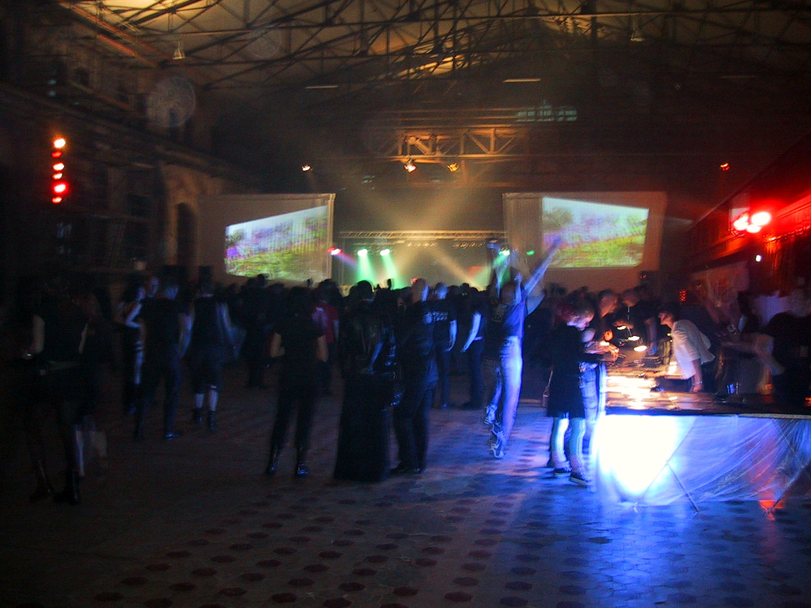 Ehemalige Maschinenhalle der Zeche Zweckel beim Musikfestival FORMS OF HANDS 2005 Old machine hall of the coal mine Zweckel at the music festival FORMS OF HANDS 2005 Date: May 2005, Gladbeck, Germany Author: Maschinenjunge Licence: cc-by-sa-2.5